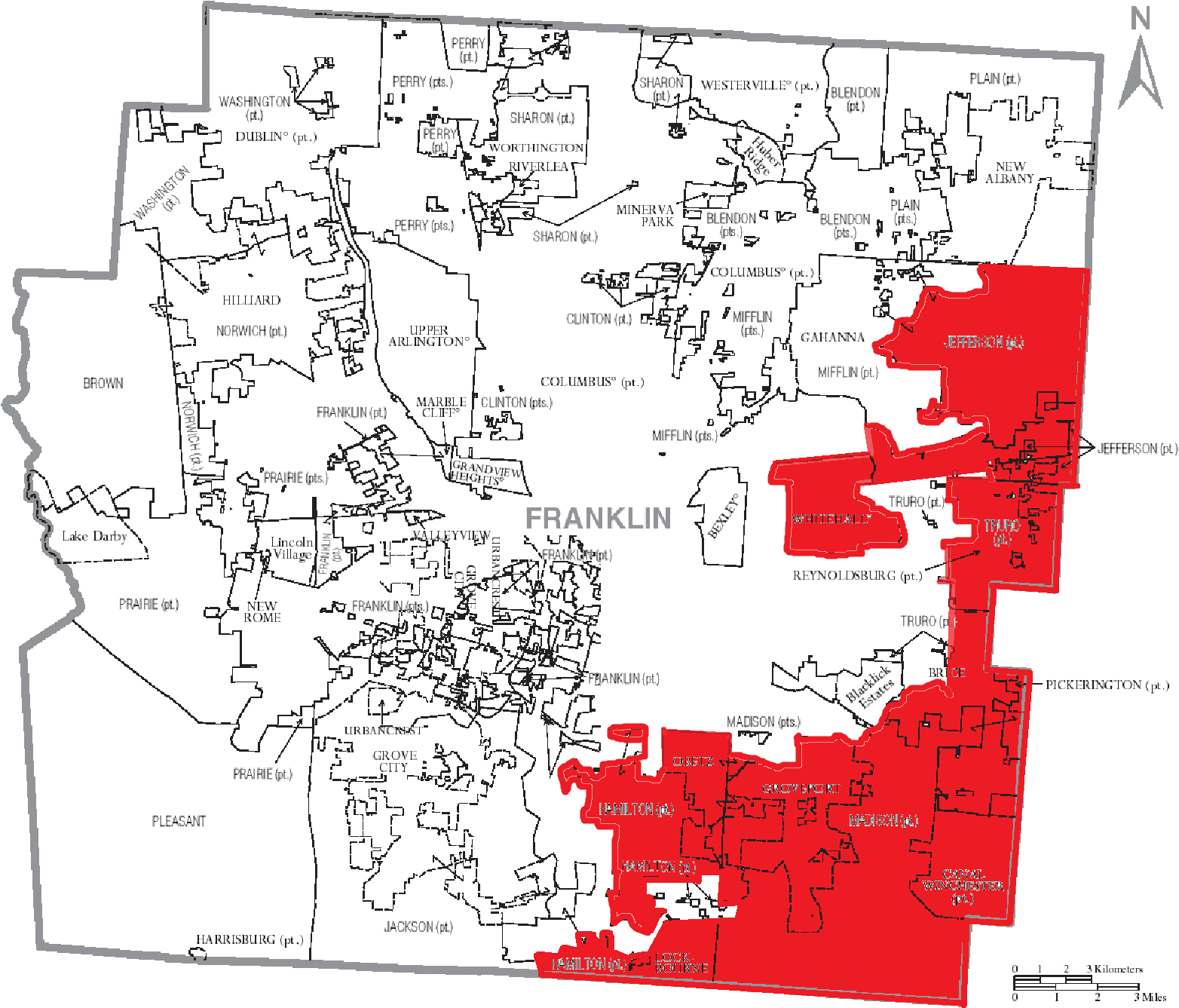 Map of Ohio House of Representatives for District 20. 2012-2020